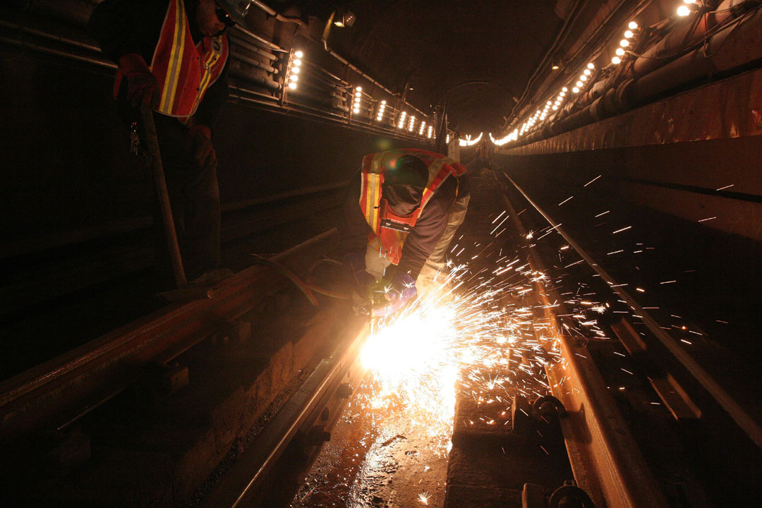 This weekend, workers installed new continuous welded rail in the N/R/Q 60th Street Tube under the East River. This photo shows a welder cutting frozen bolts off of old rails. Photo by Metropolitan Transportation Authority / Leonard Wiggins.